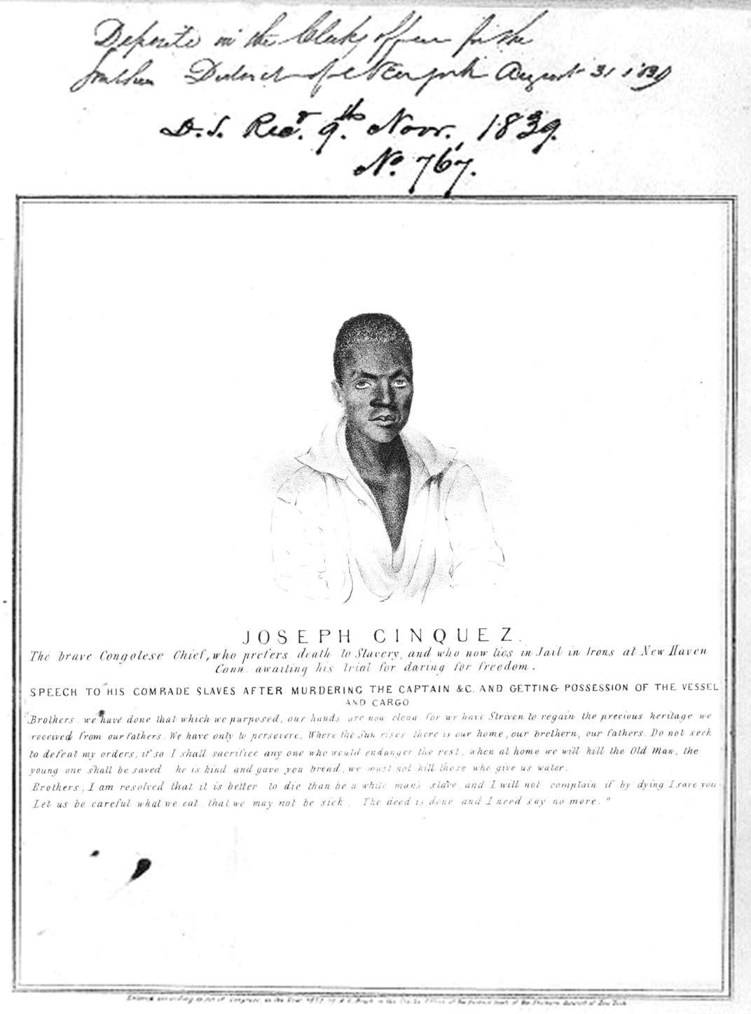 Joseph Cinquez was the leader of a revolt among African slaves aboard the Spanish ship "Amistad" en route to Cuba in June 1839. The slaves seized control of the ship but were soon recaptured and charged with murder and piracy. This portrait was done while Cinquez (or "Cinque") awaited trial in New Haven, Connecticut. John Quincy Adams represented the Africans before the Supreme Court, and thanks to his eloquence, they were set free and allowed to return to Africa. Sheffield's portrait is sympathetic and informal. The text quotes Cinquez's sober and moving speech to his comrades on board ship after the mutiny. He said, "Brothers, we have done that which we purposed, our hands are now clean for we have Striven to regain the precious heritage we received from our fathers. . . . I am resolved it is better to die than to be a white man's slave . . ." Commissioned by the publisher of the New York "Sun," the print was described and advertised for sale in the account of the capture of the "Amistad," published in that newspaper's August 31, 1839 issue. (The "Sun" account, evidently erroneous in this detail, names the artist as "James" Sheffield.) The Library's impression of the lithograph was deposited for copyright the same day.